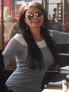 Ebru Polat, singer, third from left